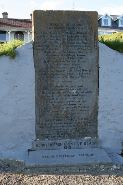 Sea Horse Memorial The memorial to the victims of the Sea horse tragedy.The Sea Horse was a British troop ship returning from the Crimea, it sank in Tramore Bay in 1816 with the loss of over 300 people. The memorial was originally located on the beach where the bodies of those who perished were buried.